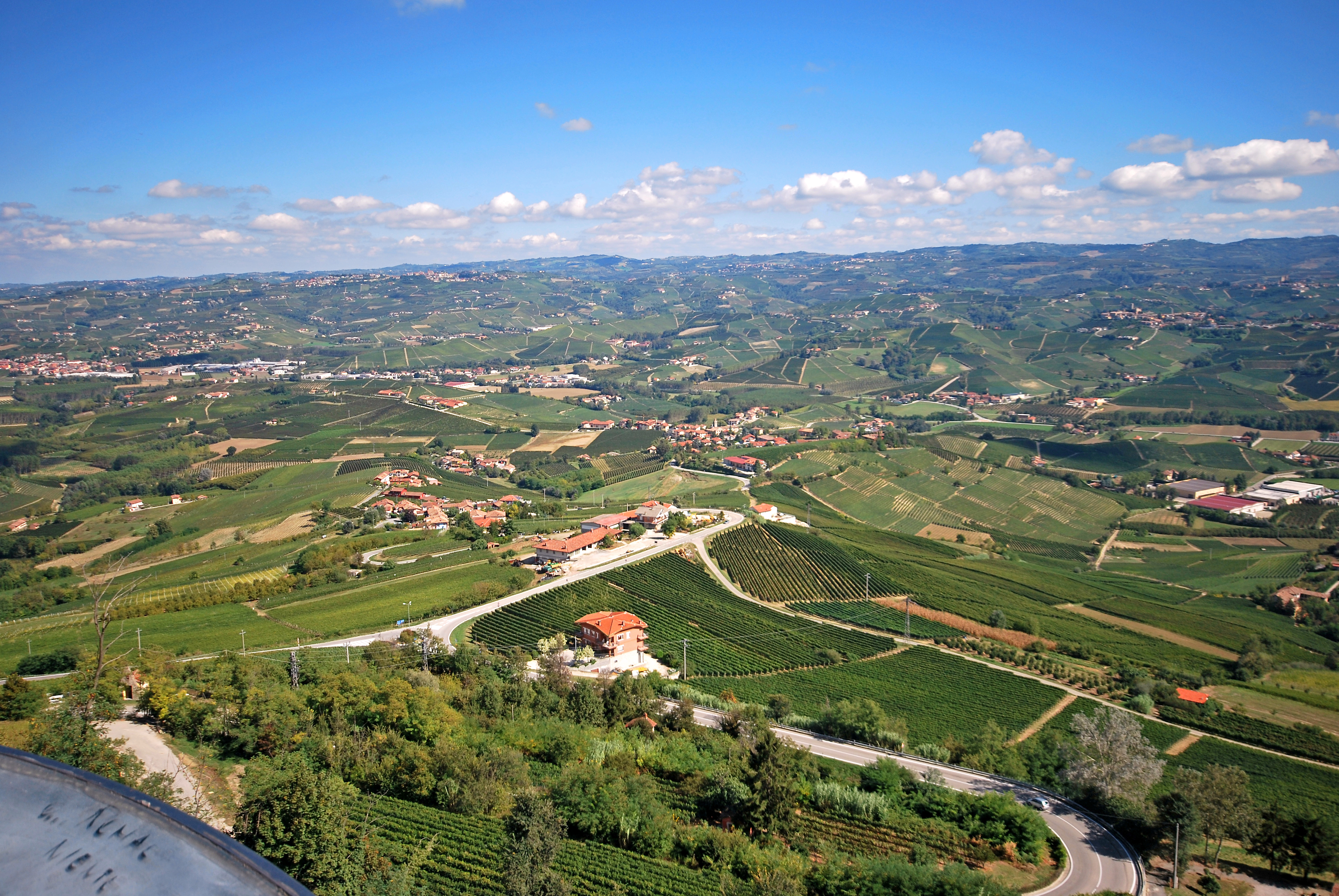 View of Langhe from La Morra village, Piazza Castello